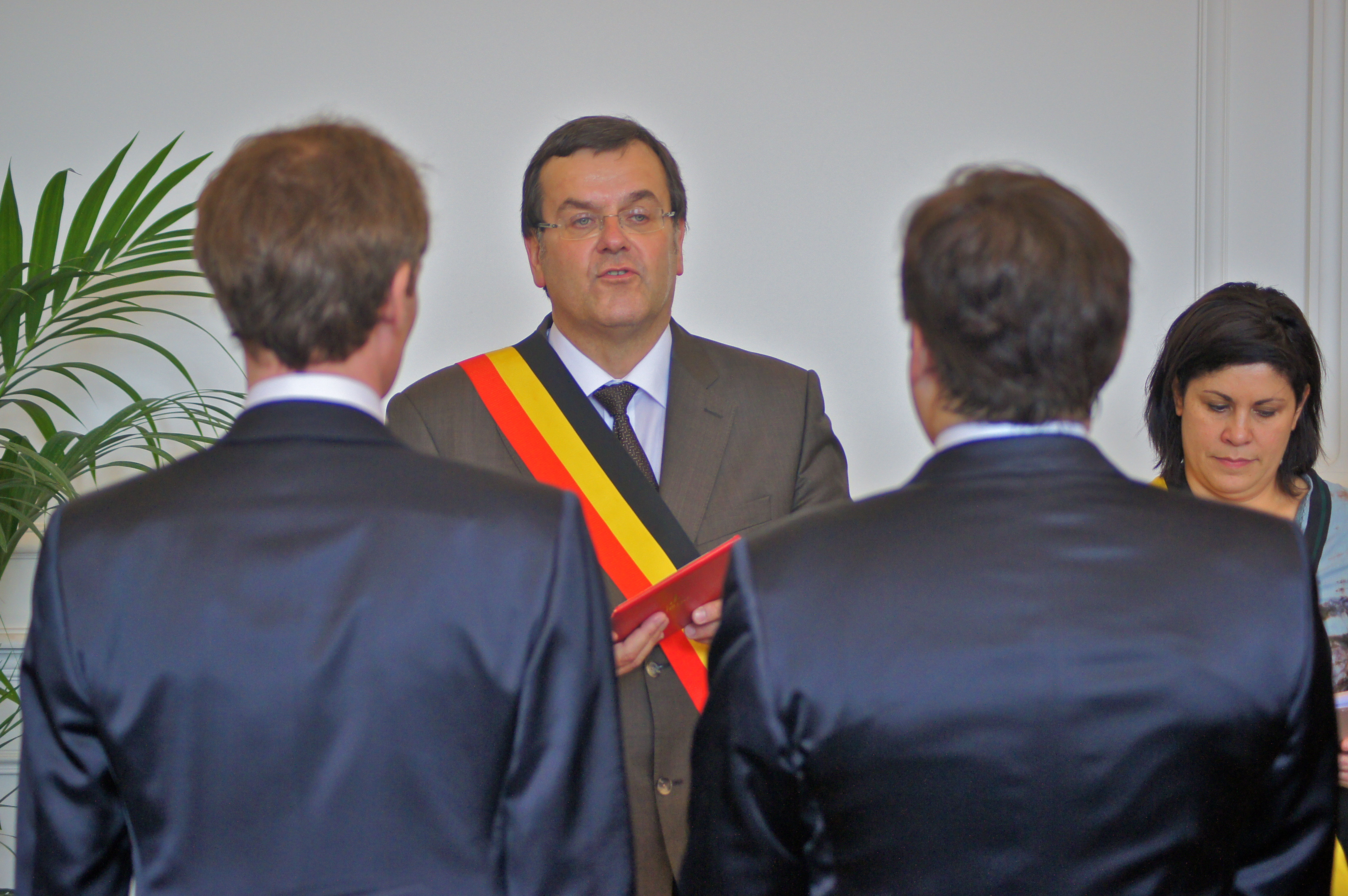 Liège: Marriage in the Town Hall by Lord Mayor Willy Demeyer